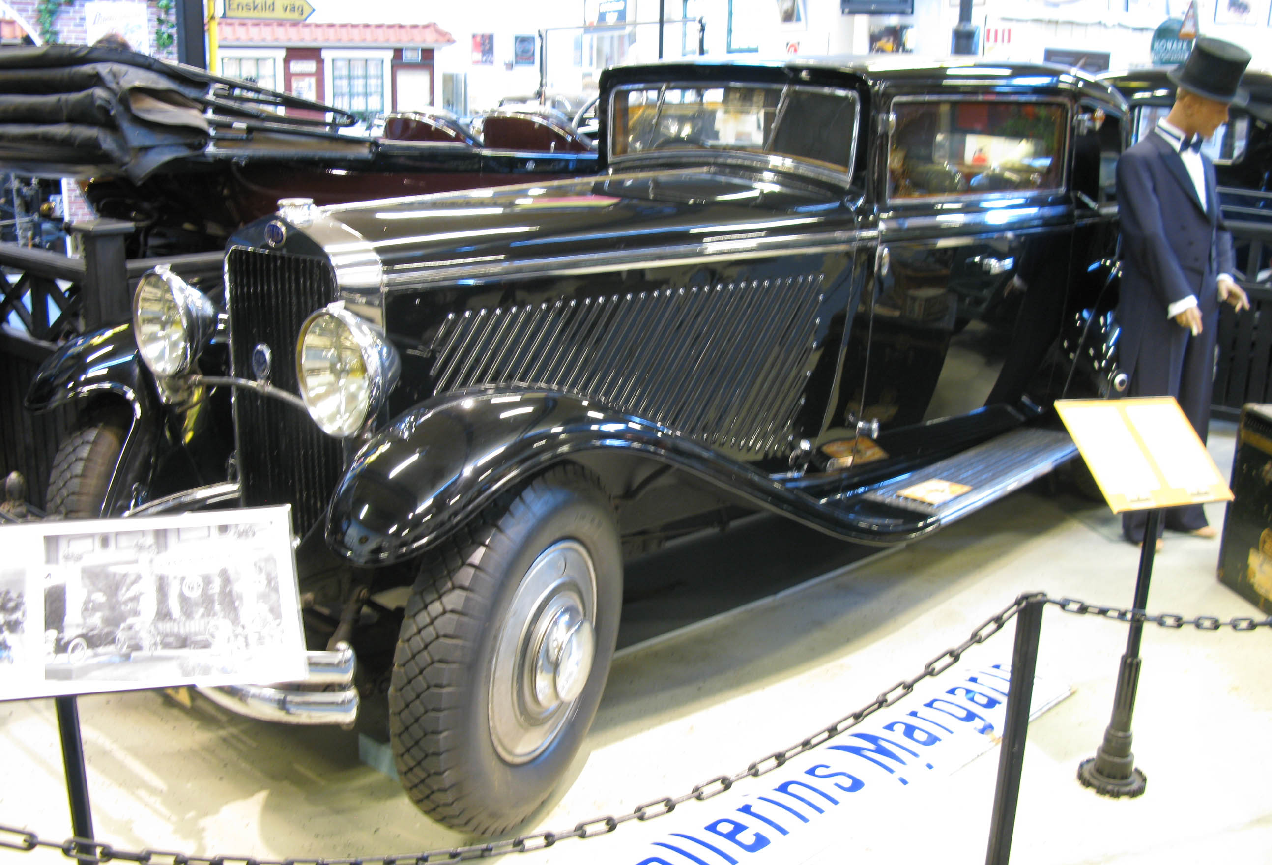 1931 Delage D8 with Letourneur et Marchand bodywork.Location: Bil & Teknikhistoriska Samlingarna i Köping